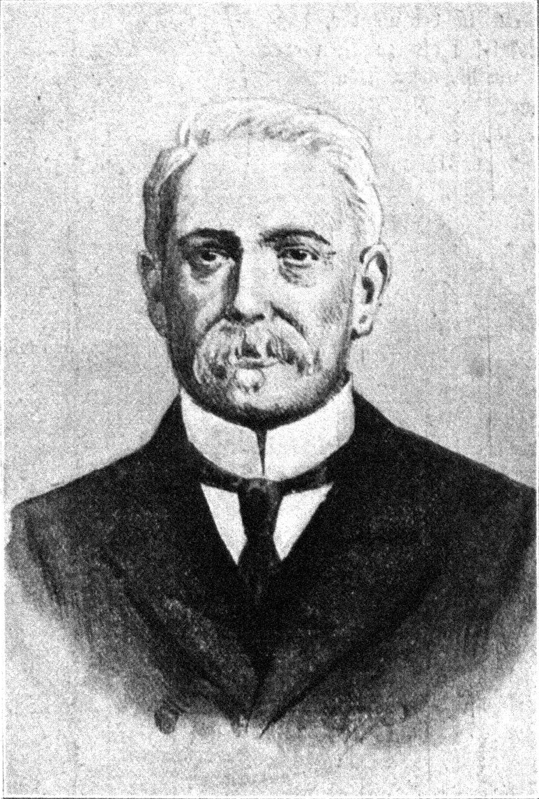 Marcell Frydmann (1847-1906), Austrian jurist and journalist